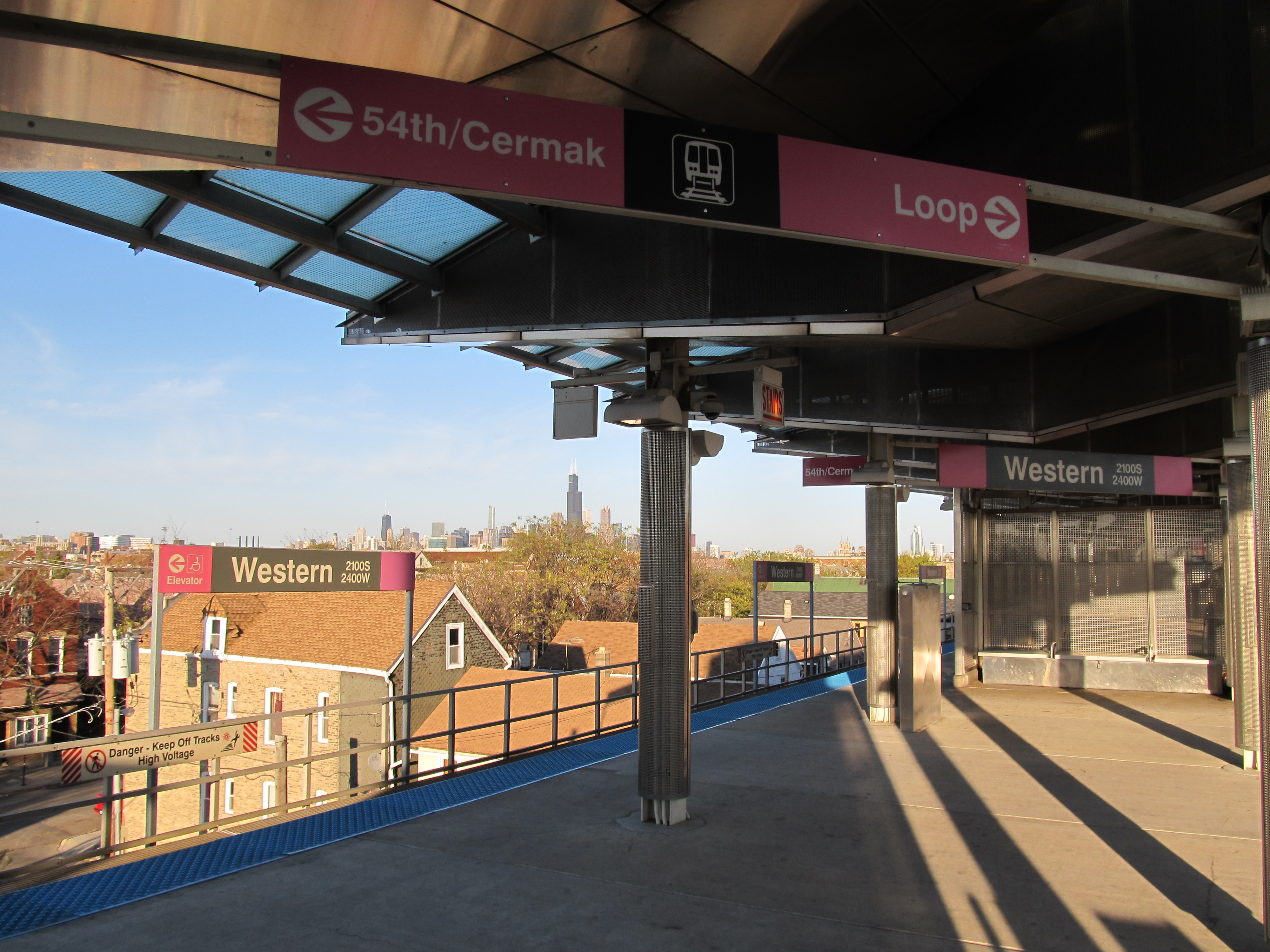 Western CTA Pink Line station Camera: Canon PowerShot SX130 IS License on Flickr: CC-BY-SA-2.0 Flickr tags: pinkline, westernavenue, westside, Chicago, CTA, Chicago Transit Authority